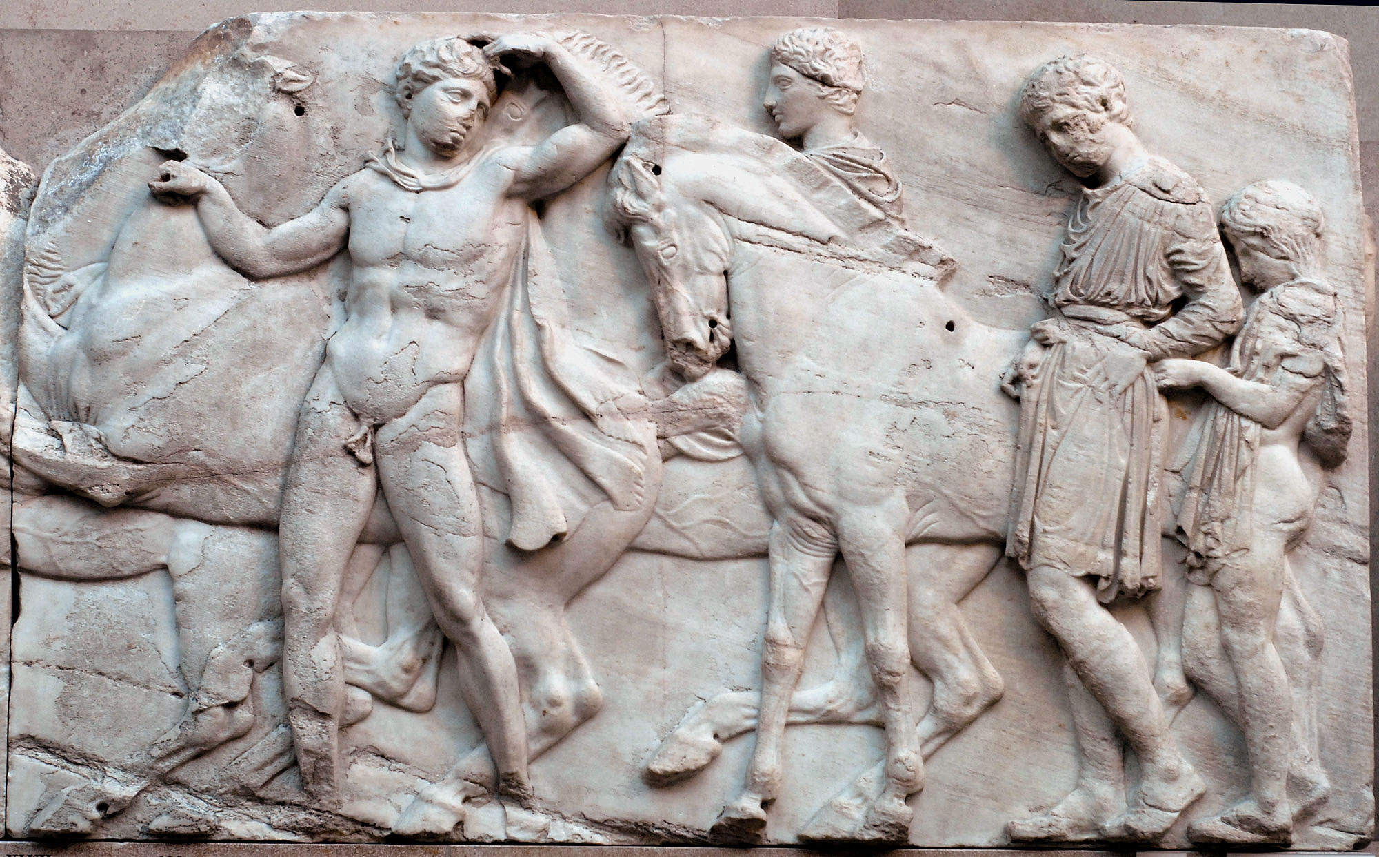 Cavalcade. Block XLVII from the north frieze of the Parthenon, ca. 447–433 BC.